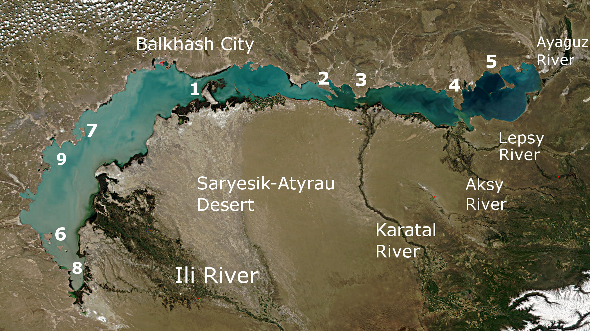 Lake Balkhash and the surrounding area viewed from space